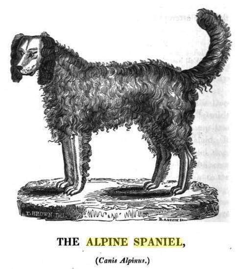 Sketch of Alpine Spaniel.